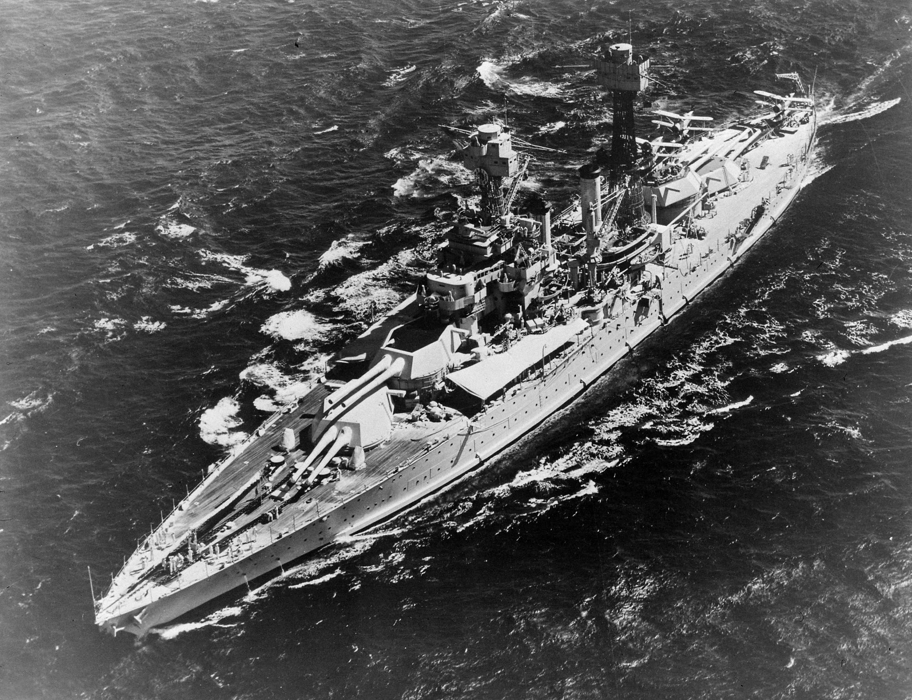 The U.S. Navy battleship USS Maryland (BB-46) underway in 1935.